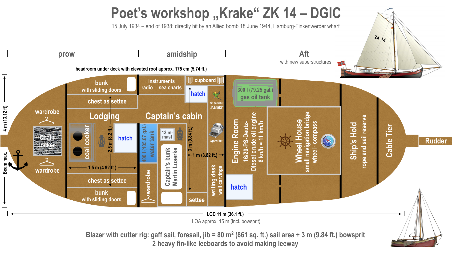 Detailed computer graphics of the historic poet's ship "Krake" with the identifier "ZK 14" (originally based in Zoutkamp harbour, The Netherlands) and the radio signal "DGJC" owned by German progressive pedagogue, bard and writer Martin Luserke (1880–1968). This computer graphics is based on a handmade sketch by Dieter Evers created in 1936/37. It is enriched due to published historic descriptions by Martin Luserke during the time of 1934 to 1938 as well as a retrospective description by his youngest son and sailor fellow Dieter Luserke (1918–2005) in 1988. Please note that some details are symbolic: Pet parakeet, typewriter, kerosene lamps, the ship's side view and its semi-profile do not exactly meet reality. The historic auxiliary powered vessel Krake (= octopus) was a sailing vessel with an auxiliary engine, a Dutch barge, type Blazer, made of solid oak wood. It is a special construction usually deployed for fishery and cargo in the shallow waters of the Wadden Sea which spreads between the Frisian Islands and the Dutch and German North Sea coast line. Its flat bottom enables the ship during tidal flats to rest on the sea ground. In Falderndelft harbour of Emden, East Frisia, Germany, Martin Luserke created some of his most successful books: Hasko, 1935 awarded with Literaturpreis of Reichshauptstadt Berlin, his most favourite book Obadjah und die ZK 14 (the name Obadjah originates from an ancient Jewish figure despite Nazi Antisemitism) and a Viking trilogy.